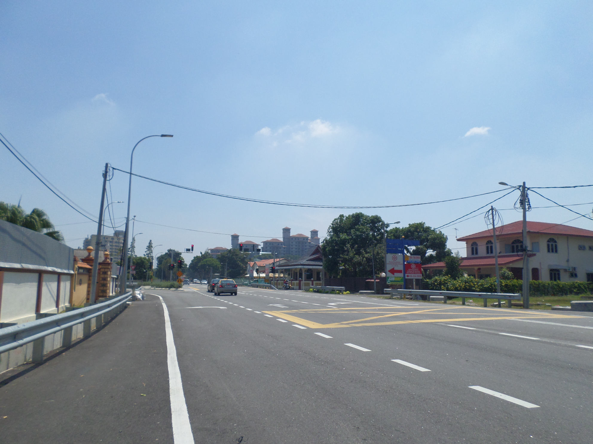 Klebang, Malacca, MalaysiaBahasa Melayu: Klebang, Melaka, Malaysia